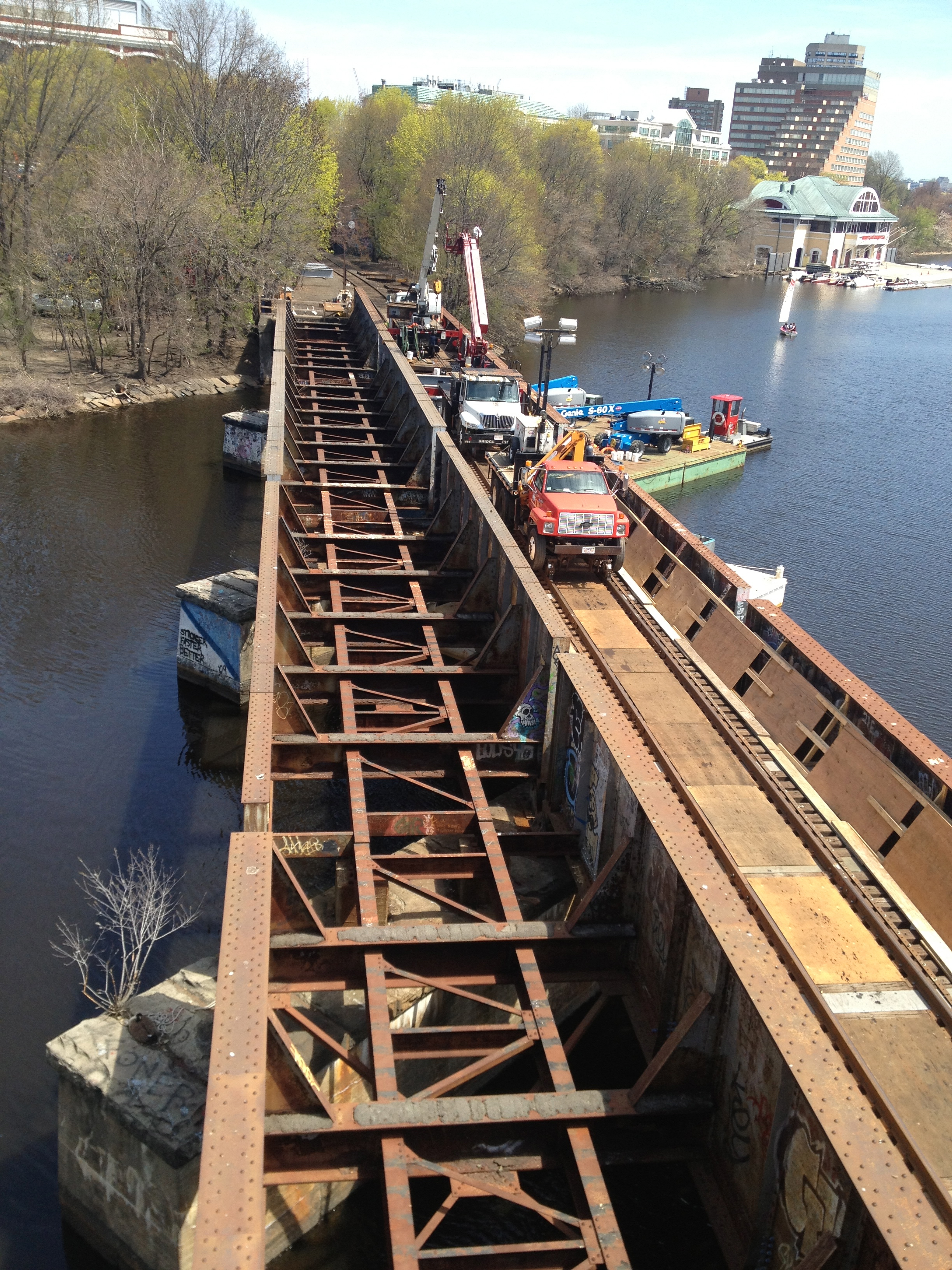 Structural repairs to the Grand Junction Railroad bridge over the Charles River nearing completion in April 2013.